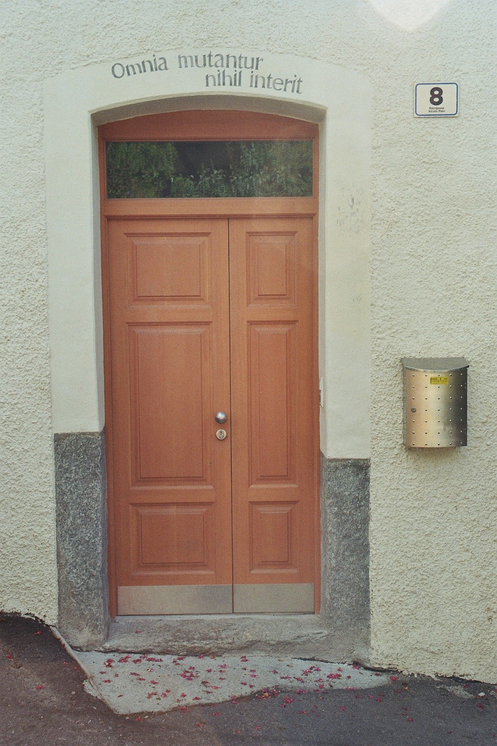 Door in Bruneck, Raingasse - Vicolo Rain Nr. 8. Latin inscription: OMNIA MUTANTUR NIHIL INTERIT - All things change, nothing perishes - alles ändert sich, nichts geht unter.